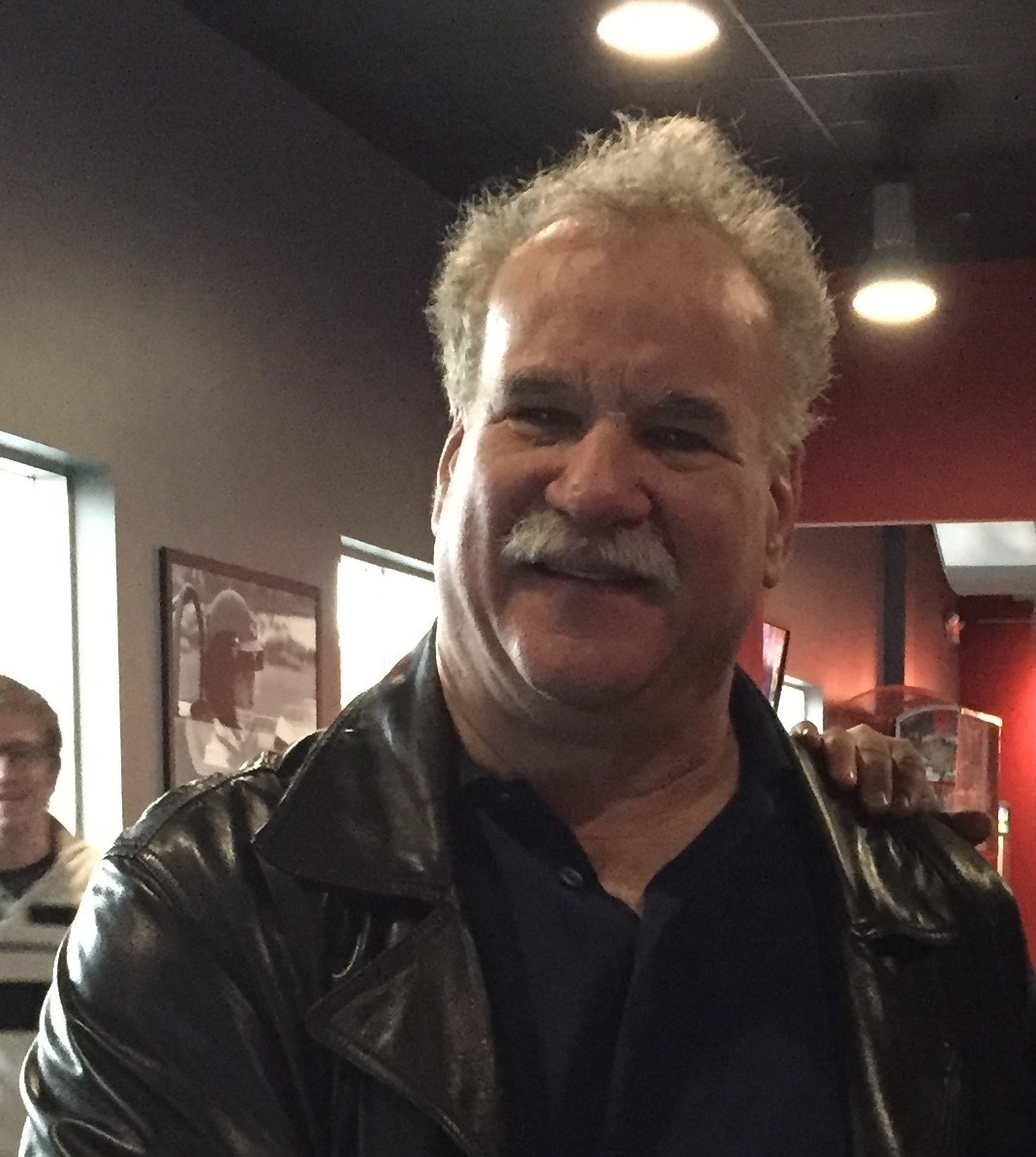 Scott Denmark after winning the first place in group 2 of go-cart racing